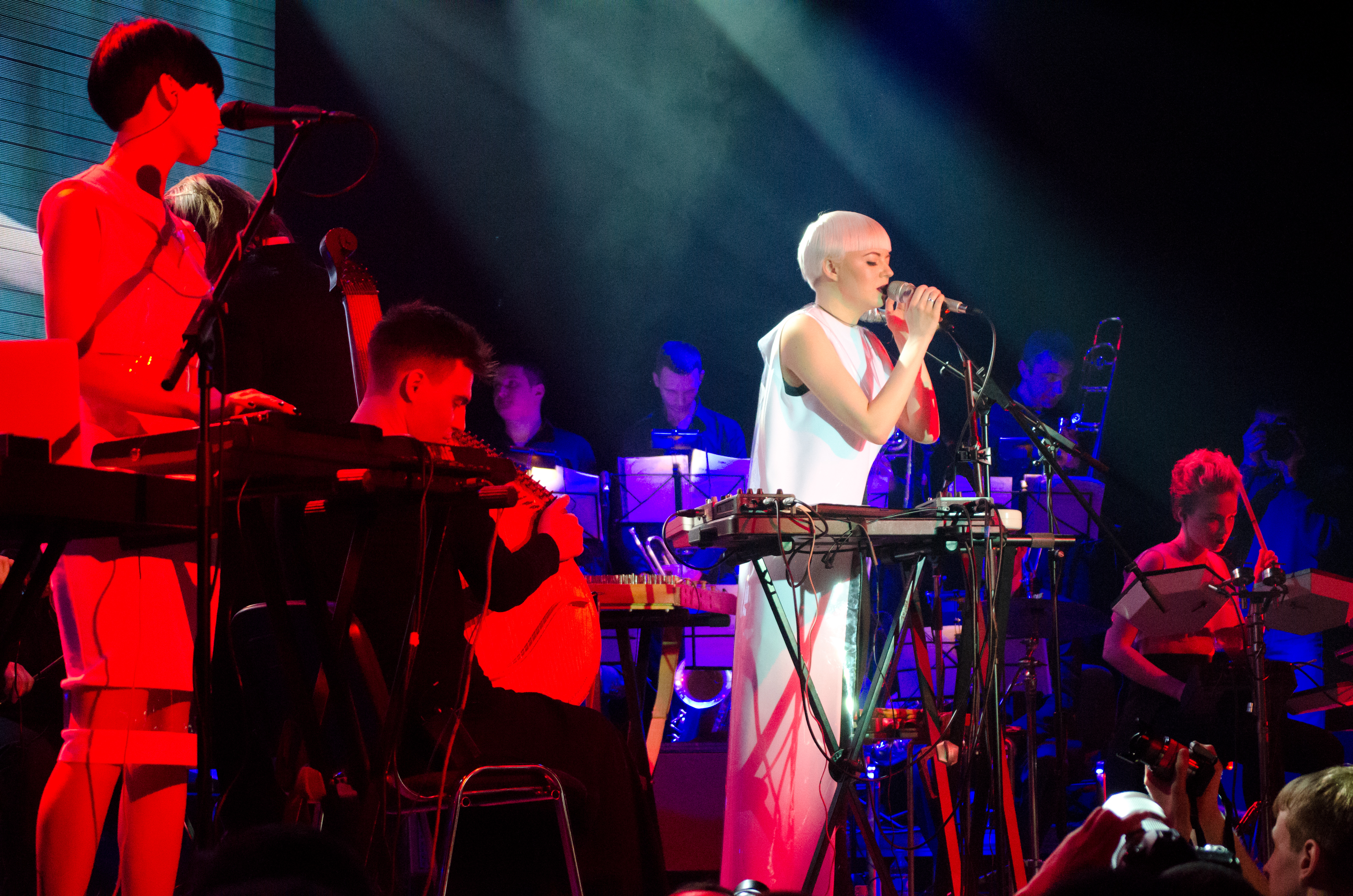 ONUKA concert in Sentrum, Kyiv.